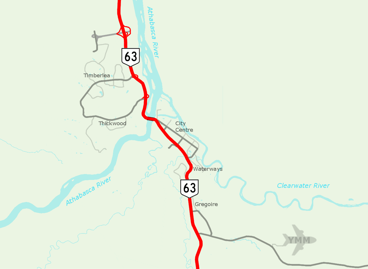 Alignment of Highway 63 in Fort McMurray, Alberta, Canada.